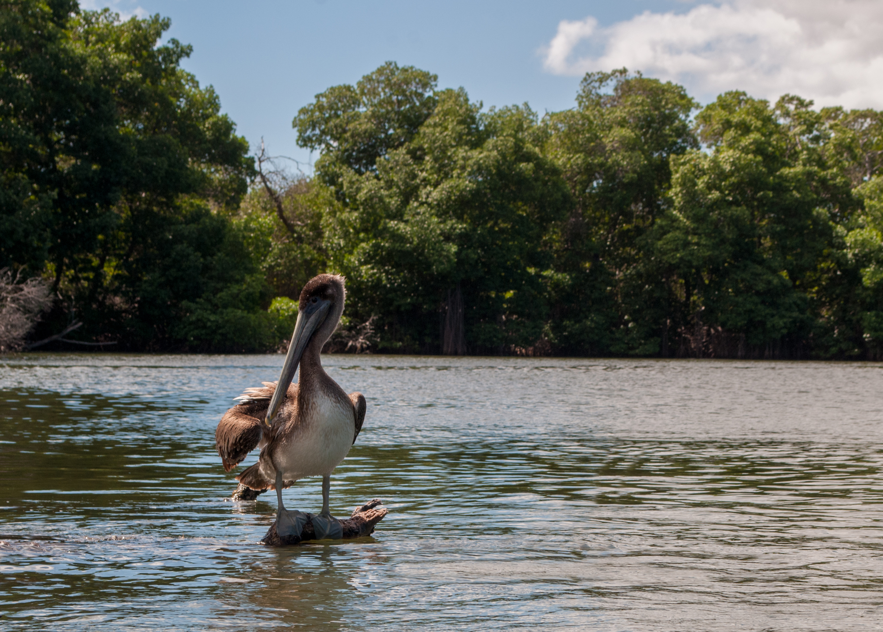 Pelican in Margarita island